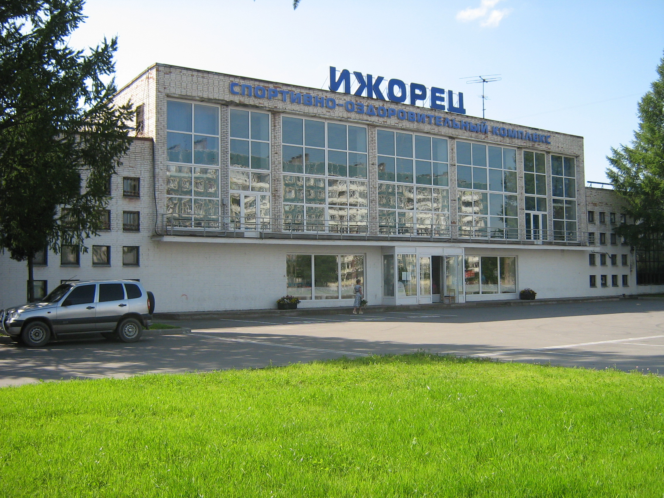 Kolpino (Russia)